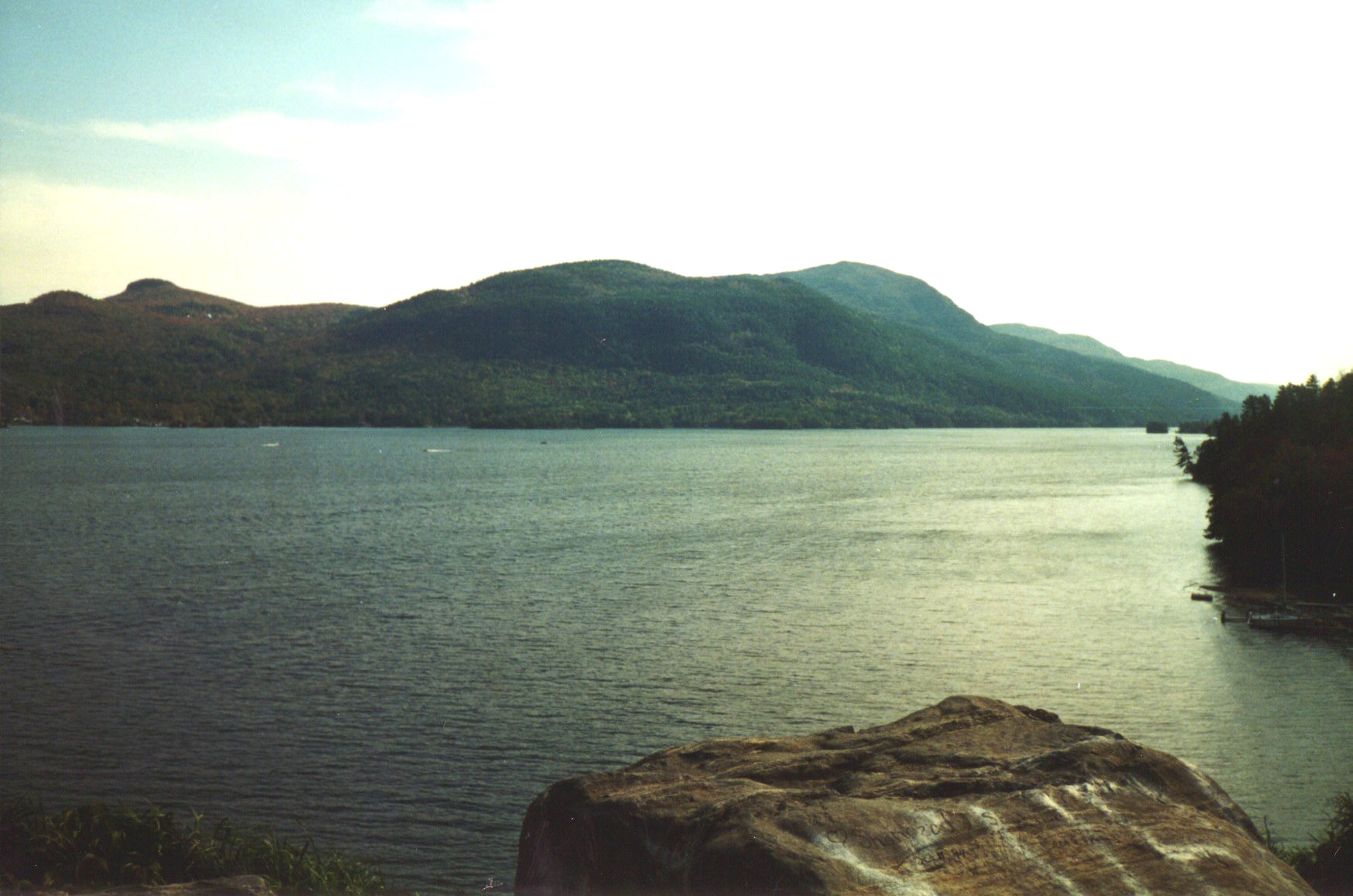 New York's Lake George. Photo taken along western shore near Sabbath Day Point, fall 1999. H.G. Judd